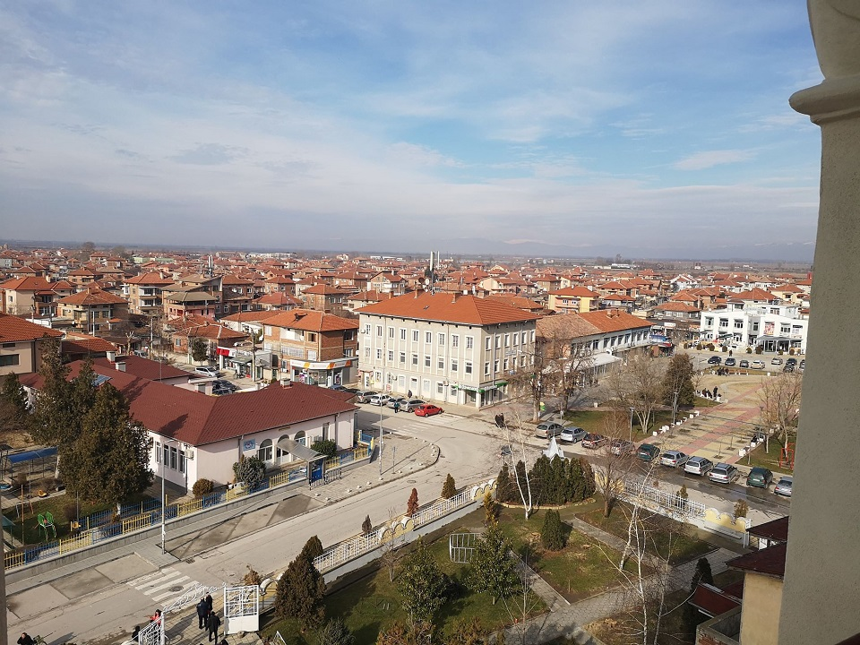 Rakovski, the Europe square